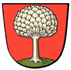 Coat of arms of Heistenbach